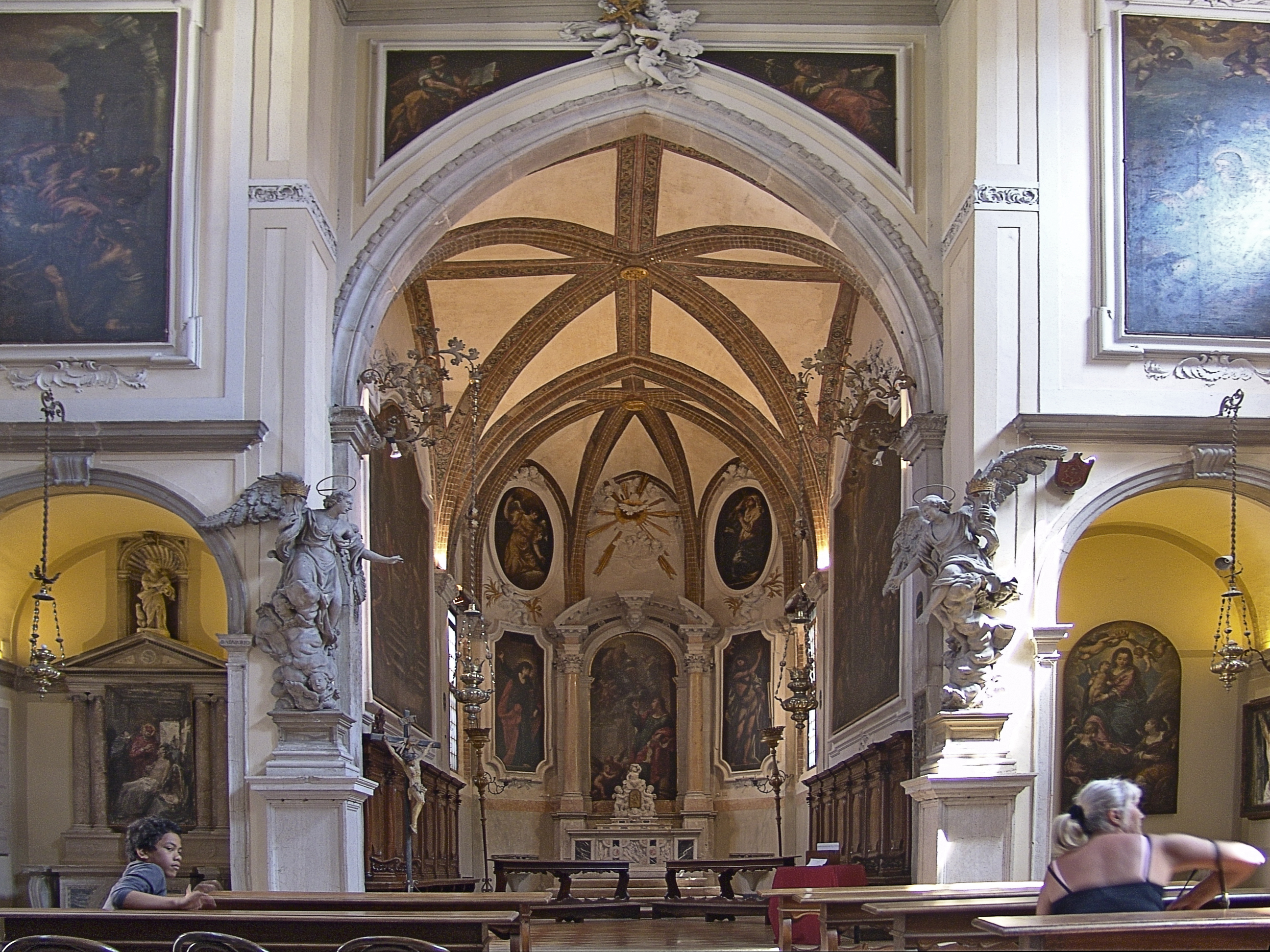 Church of di San Giovanni Evangelista ", Interior, Venice.